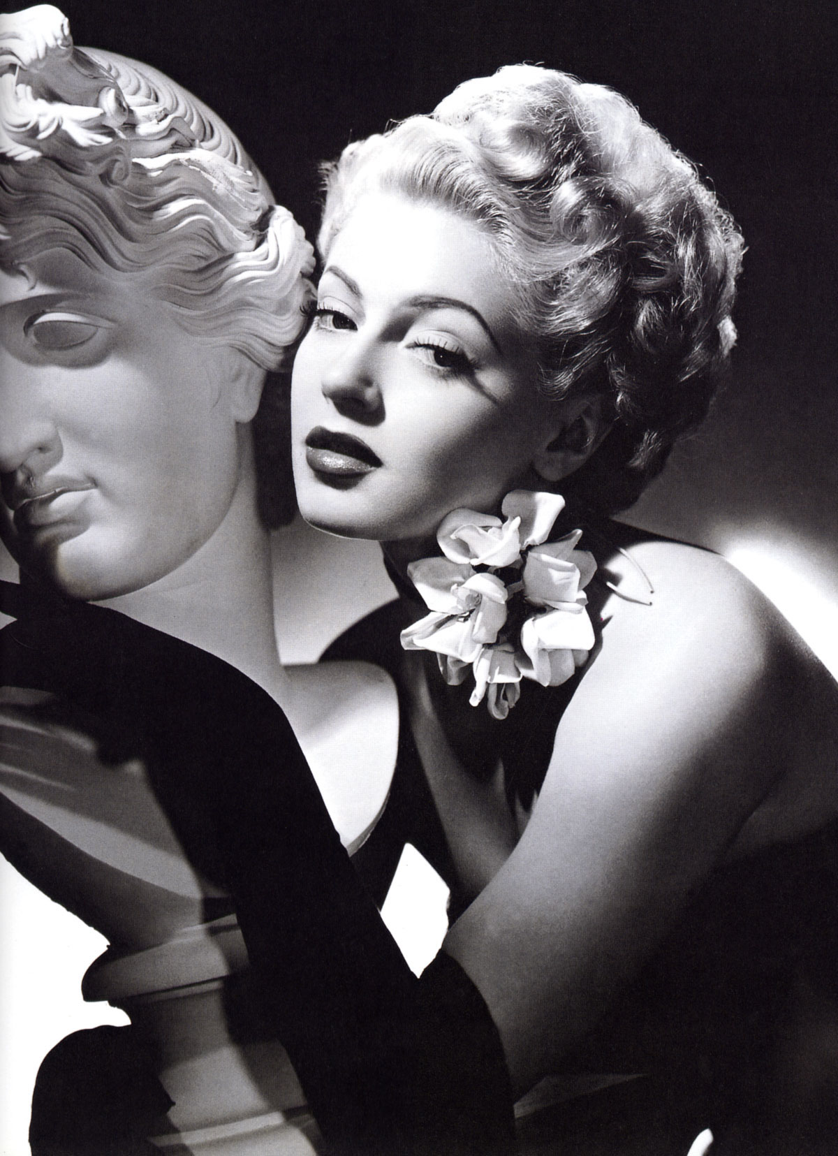 Early studio portrait of Lana Turner, c. 1942